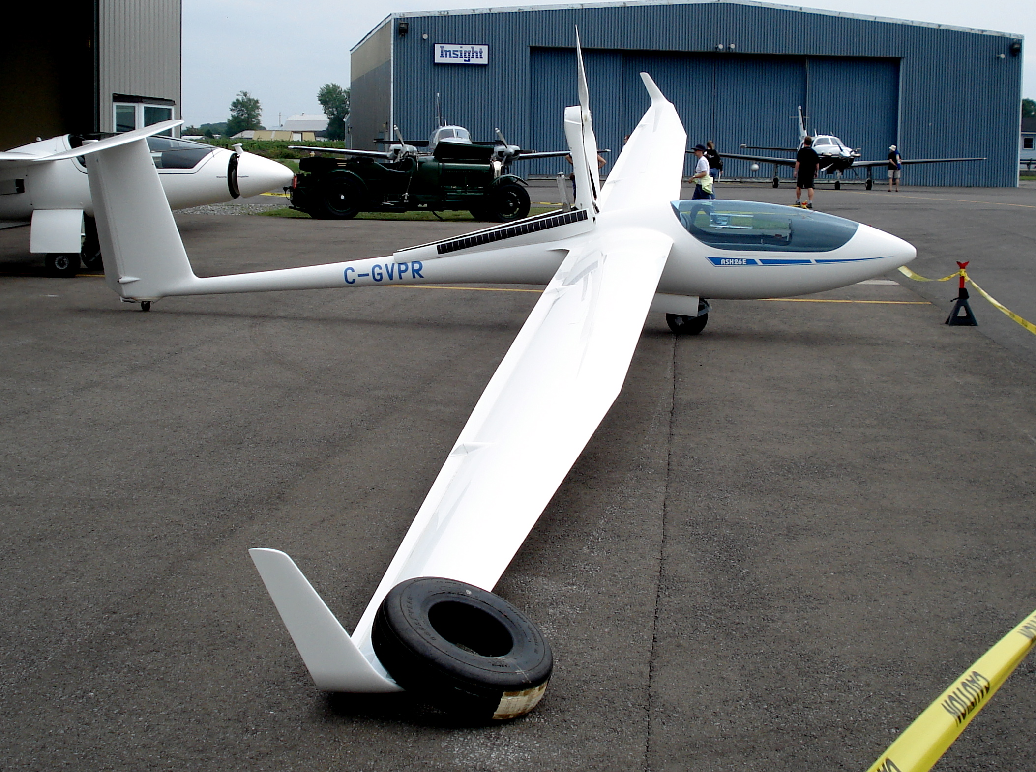 Schleicher ASH 26E sailplane. Photo taken on August 26, 2006 at St. Catharines Airport. Source: Photo by me, User:Balcer.